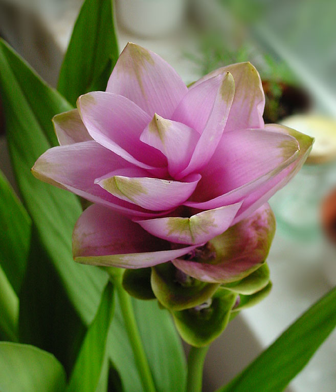 Siam Tulip or Summer Tulip Photos of the same plant